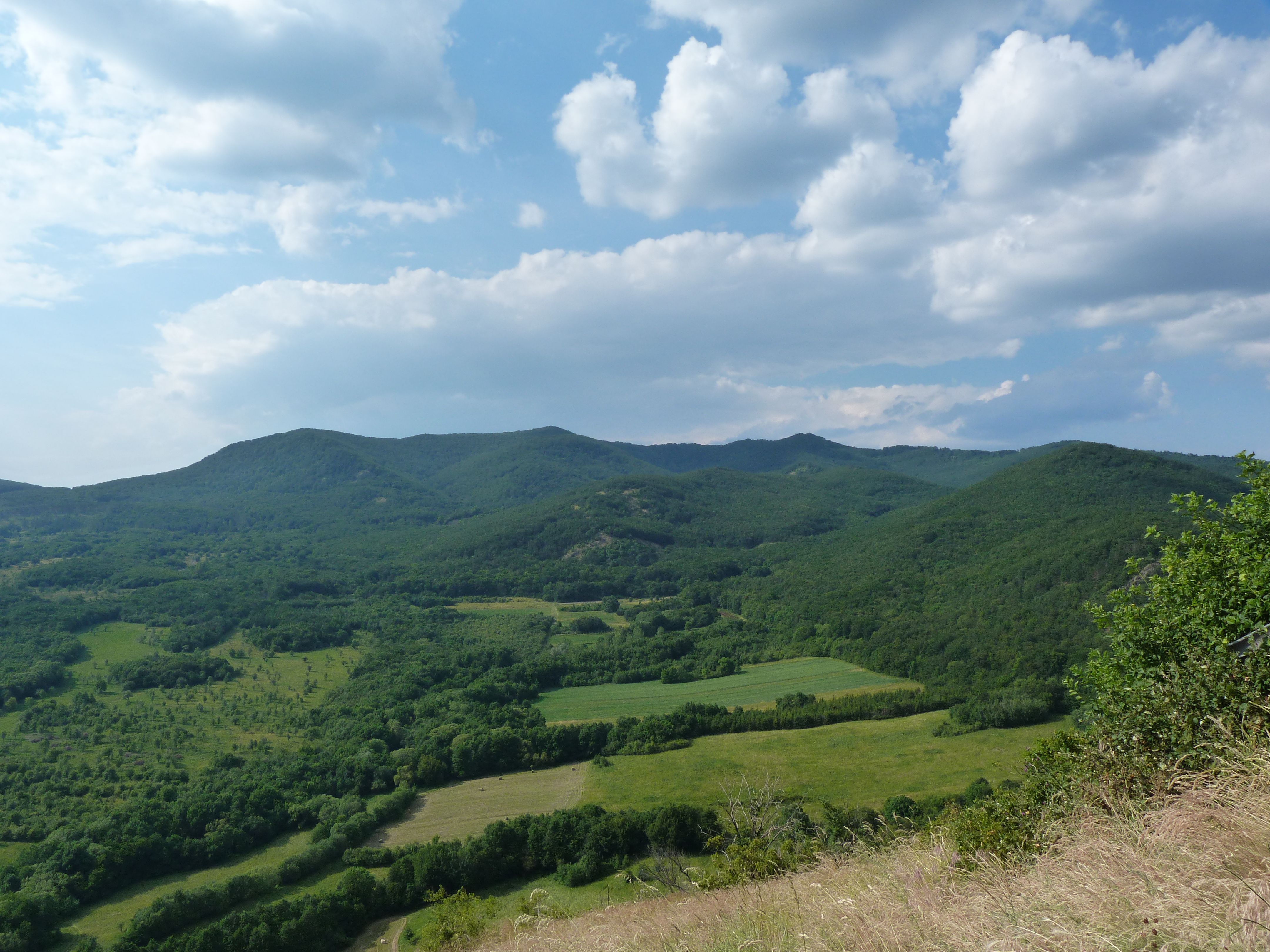 View from Castle of Füzér toward Nagy Milic Hill